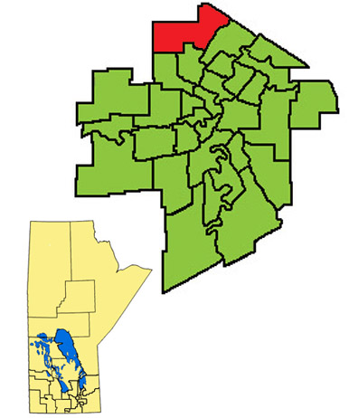 The 2011- boundaries for The Maples electoral boundaries in Manitoba highlighted in red.